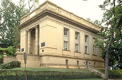 Oblique view of the Volta Laboratory and Bureau. Caption: "Volta Laboratory and Bureau - Photo courtesy of the DC SHPO" (DISTRICT OF COLUMBIA STATE HISTORIC PRESERVATION OFFICE)